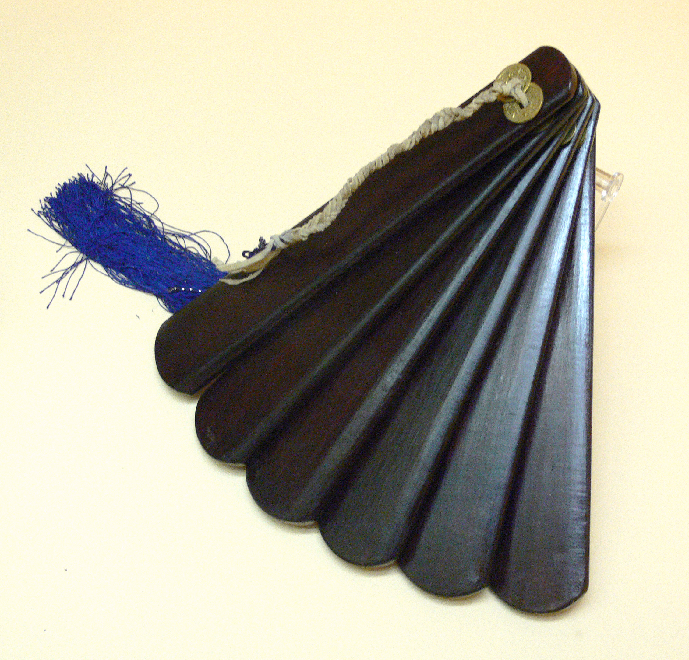 Bak, pearwood and stag leather, Department of Music Ethnology, Ethnological Museum, Berlin, Germany